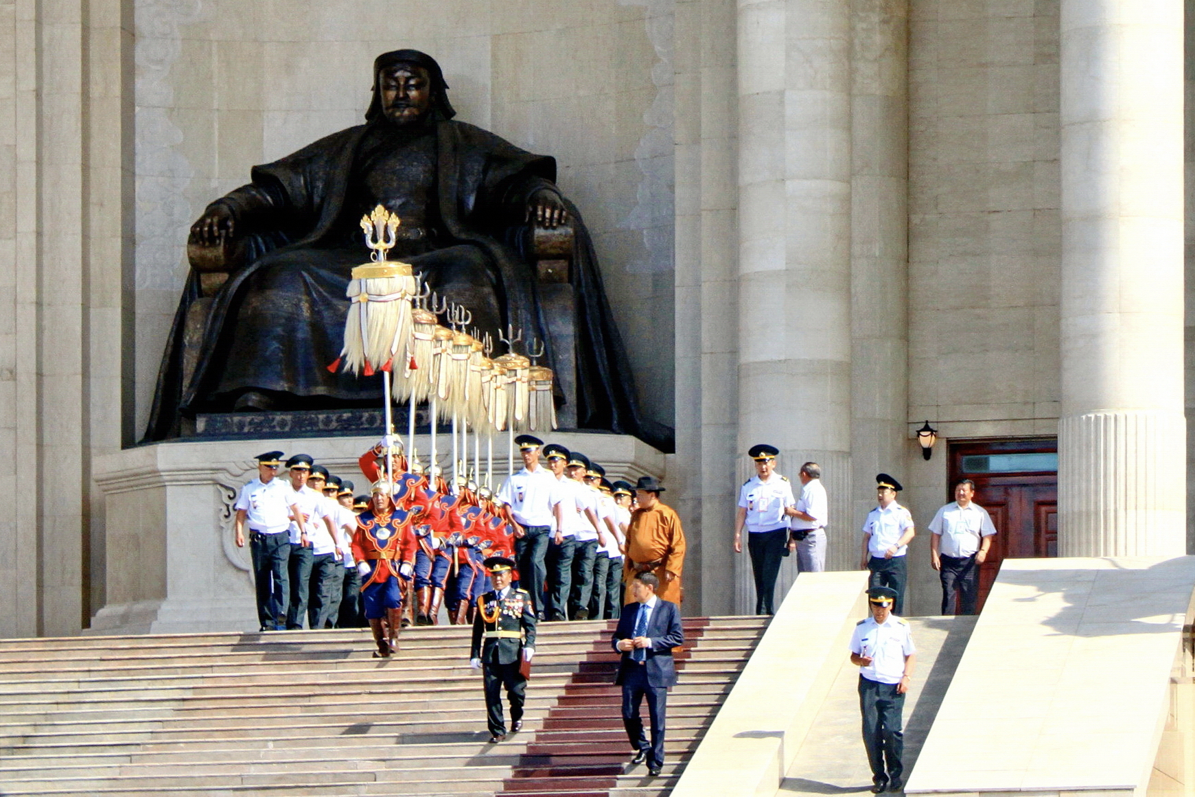 Mongolian Army honor guard on the steps of Parliament during the Naadam festival. Sükhbaatar Square, Ulan Bator, Mongolia.